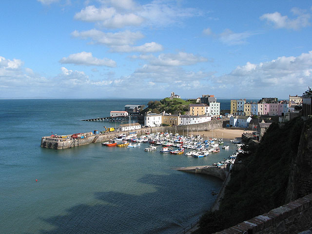 High Tide in Tenby Harbour